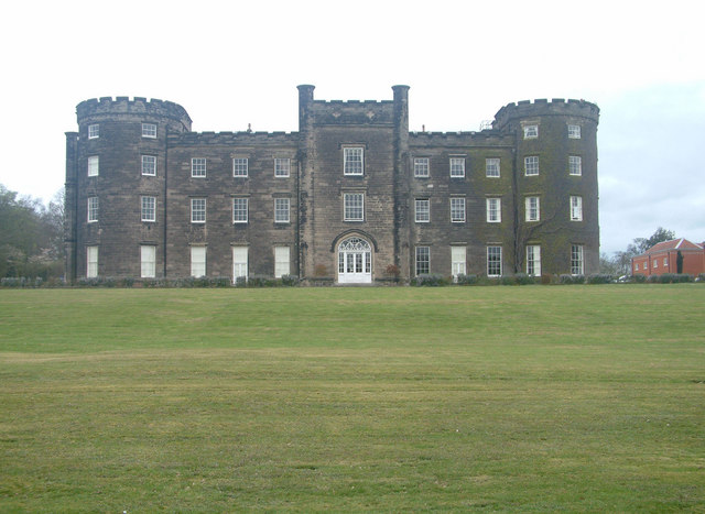 Bretby Hall Converted Hospital